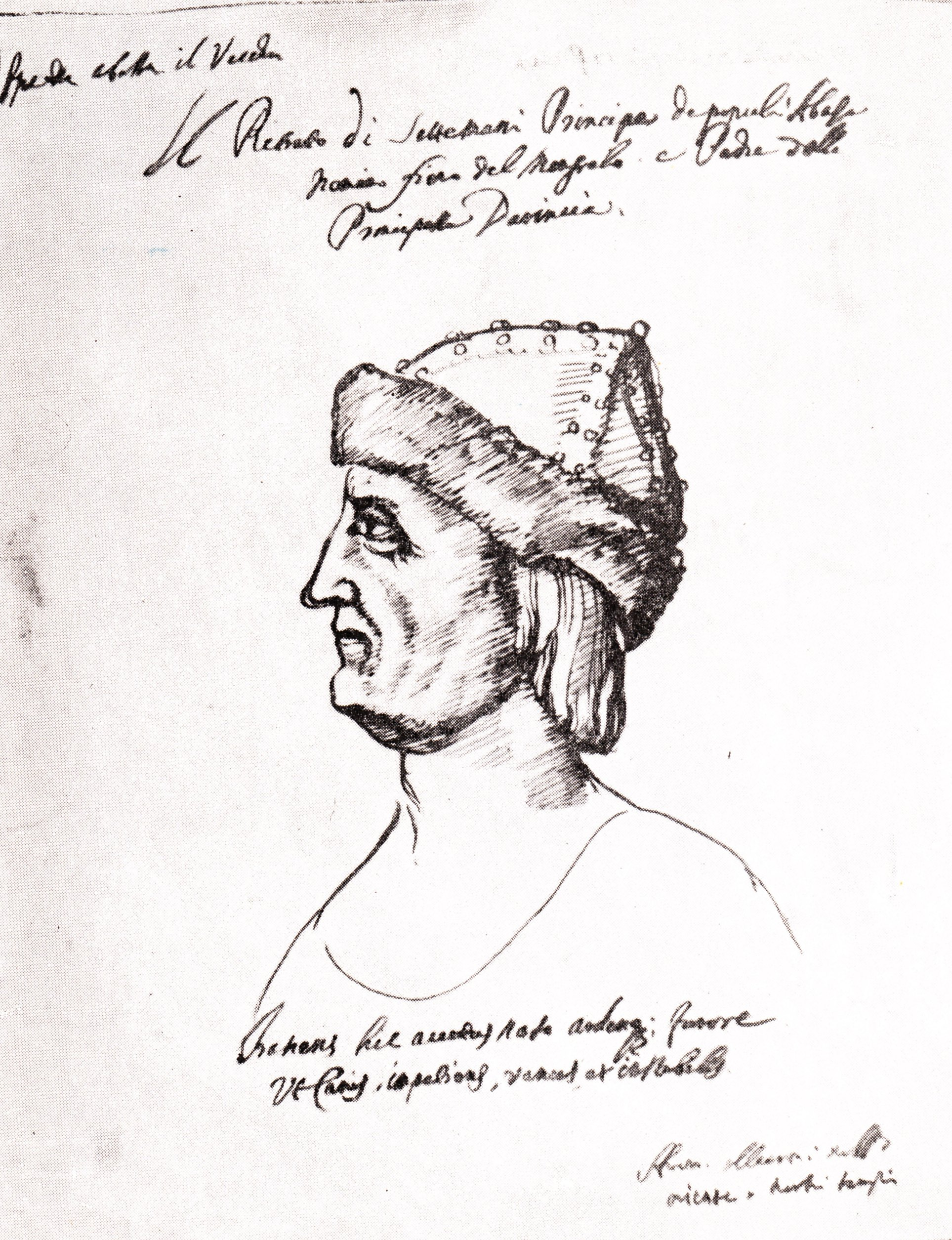 Ruler of Abkhazia Seteman Sharashia (Shervashidze, ca. 1620 - 1640). From an album of sketches of Don Cristoforo De Castelli.